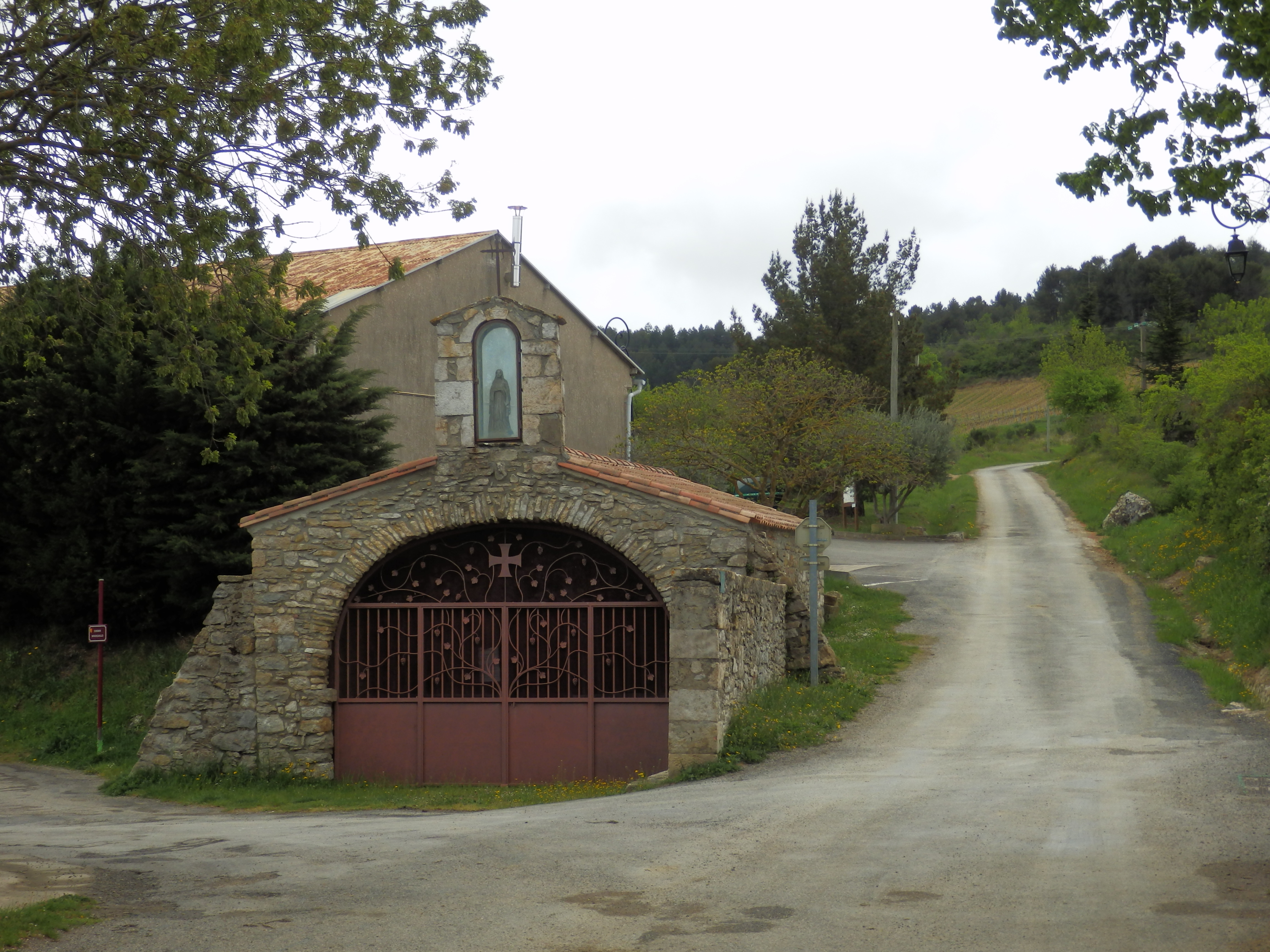 Chapel in Roquetaillade, Aude, France